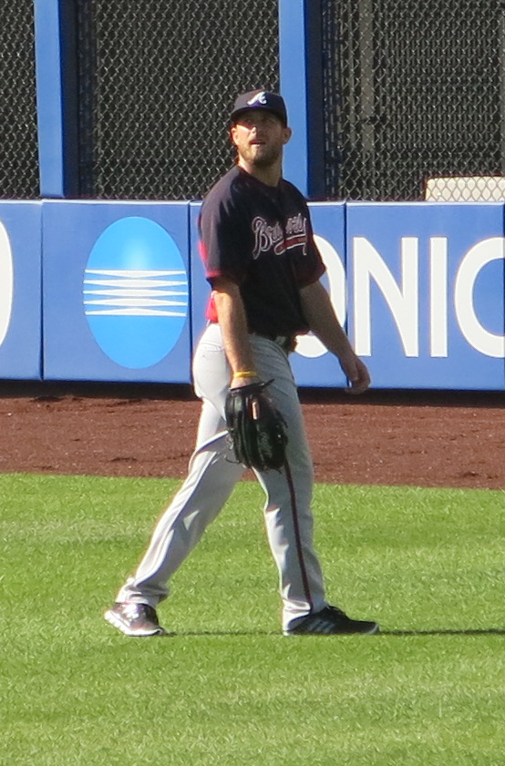 Ian Krol of the Atlanta Braves, June 17, 2016.